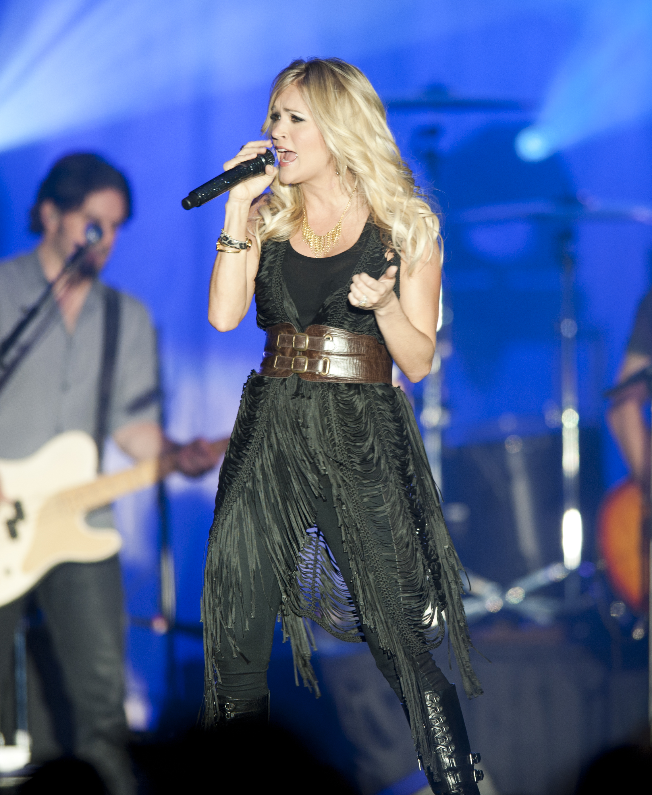 Carrie Underwood performing at United States Naval Academy, in April 2011